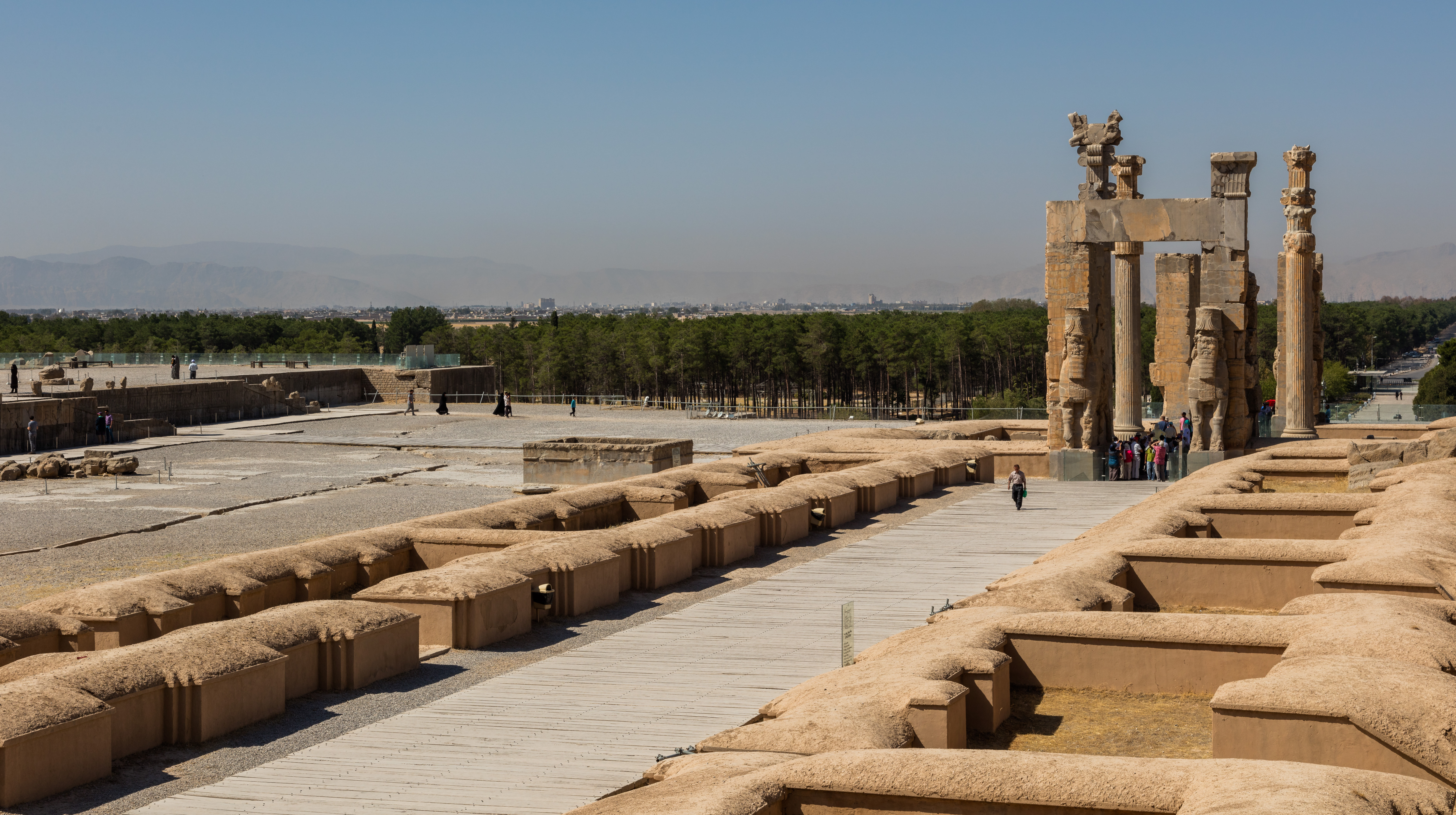 Persepolis, Iran